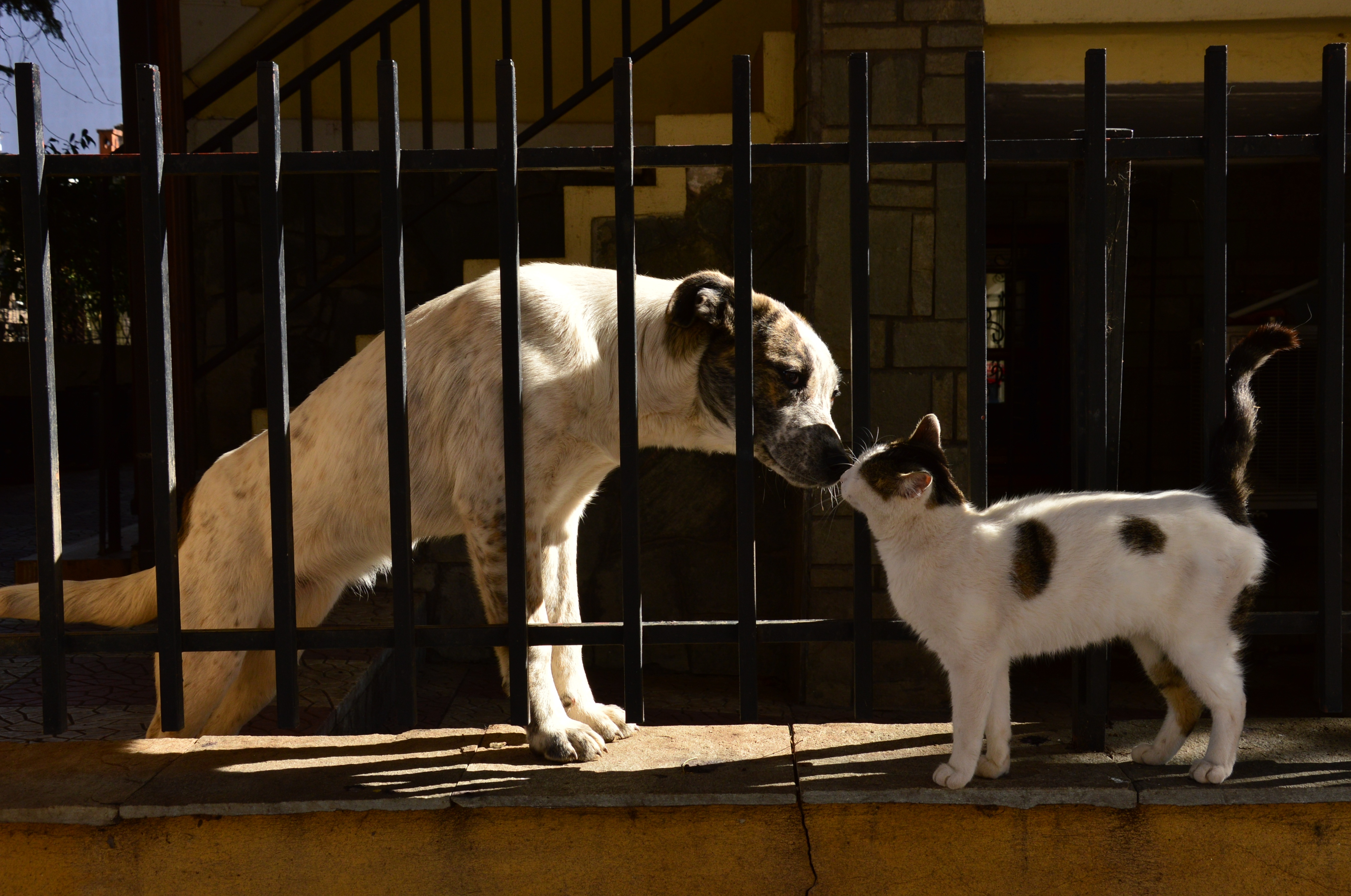 Friendliness between different species is not impossible.